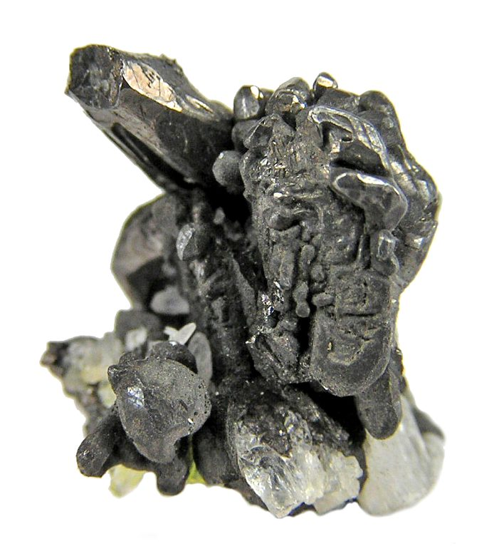 Gold, Hessite Locality: Botés, Alba County, Romania (Locality at ) Size: thumbnail, 2.1 x 1.7 x 1.5 cm Hessite, Gold WOW! This is an incredible, world-class thumbnail of this very rare silver species! Such pieces are usually 100-200 years old and more. Pristine, aesthetic examples are few and far between in any size, but THIS ONE is a competition level piece for aesthetics, aside from the rarity and history. Note the Smithsonian label showing it is from the Carl Bosch collection. Bosch didn't collect anything bad. Even his small stuff is good, as this exemplifies!